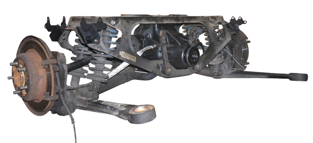 Indepedent rear suspension unit from a 1995 Jaguar XJS, removed from the vehicle for servicing. This modified version has a white background.